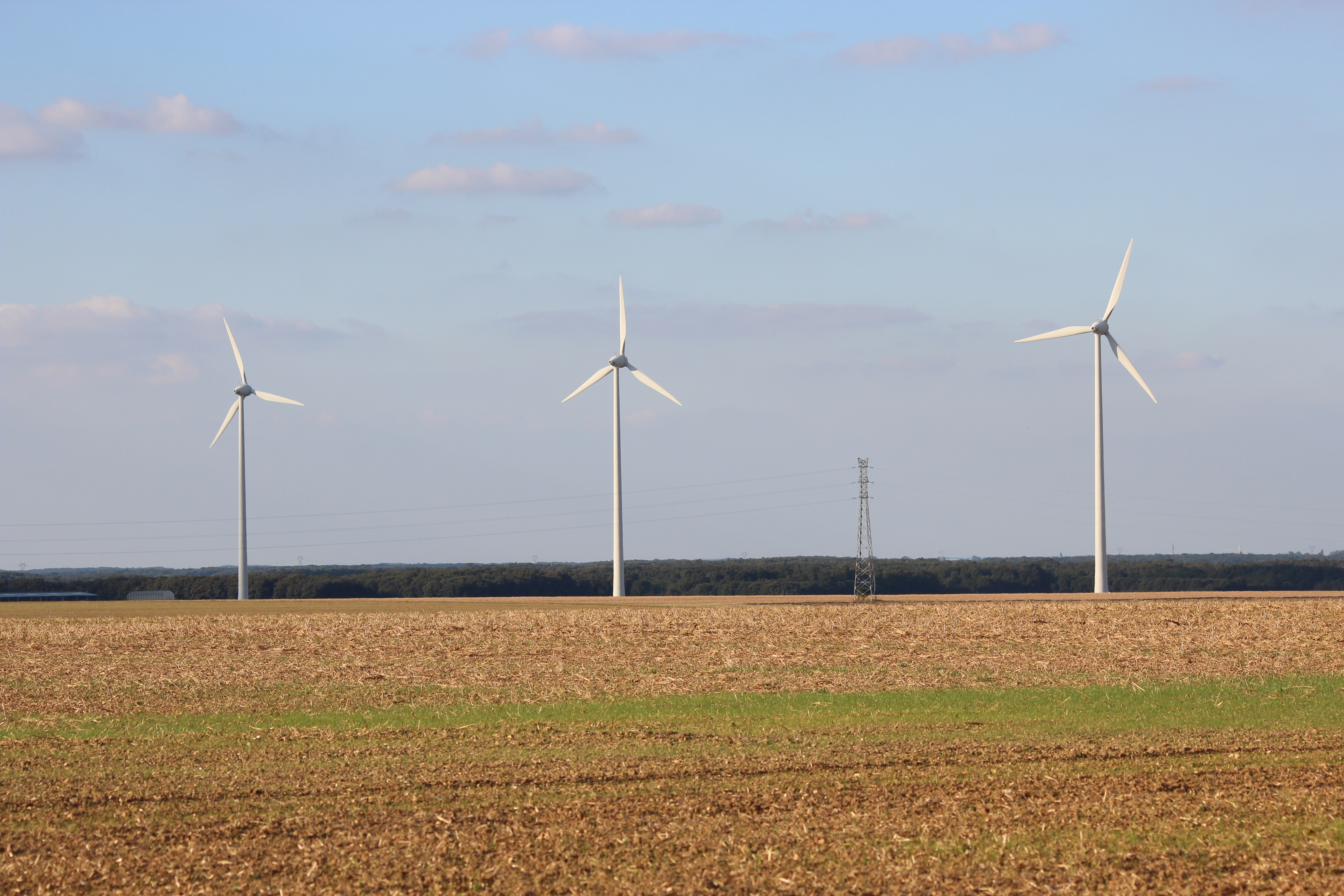 Wind turbines in Le Boullay-Thierry, France. Object location48° 39′ 32.49″ N, 1° 26′ 26.15″ E